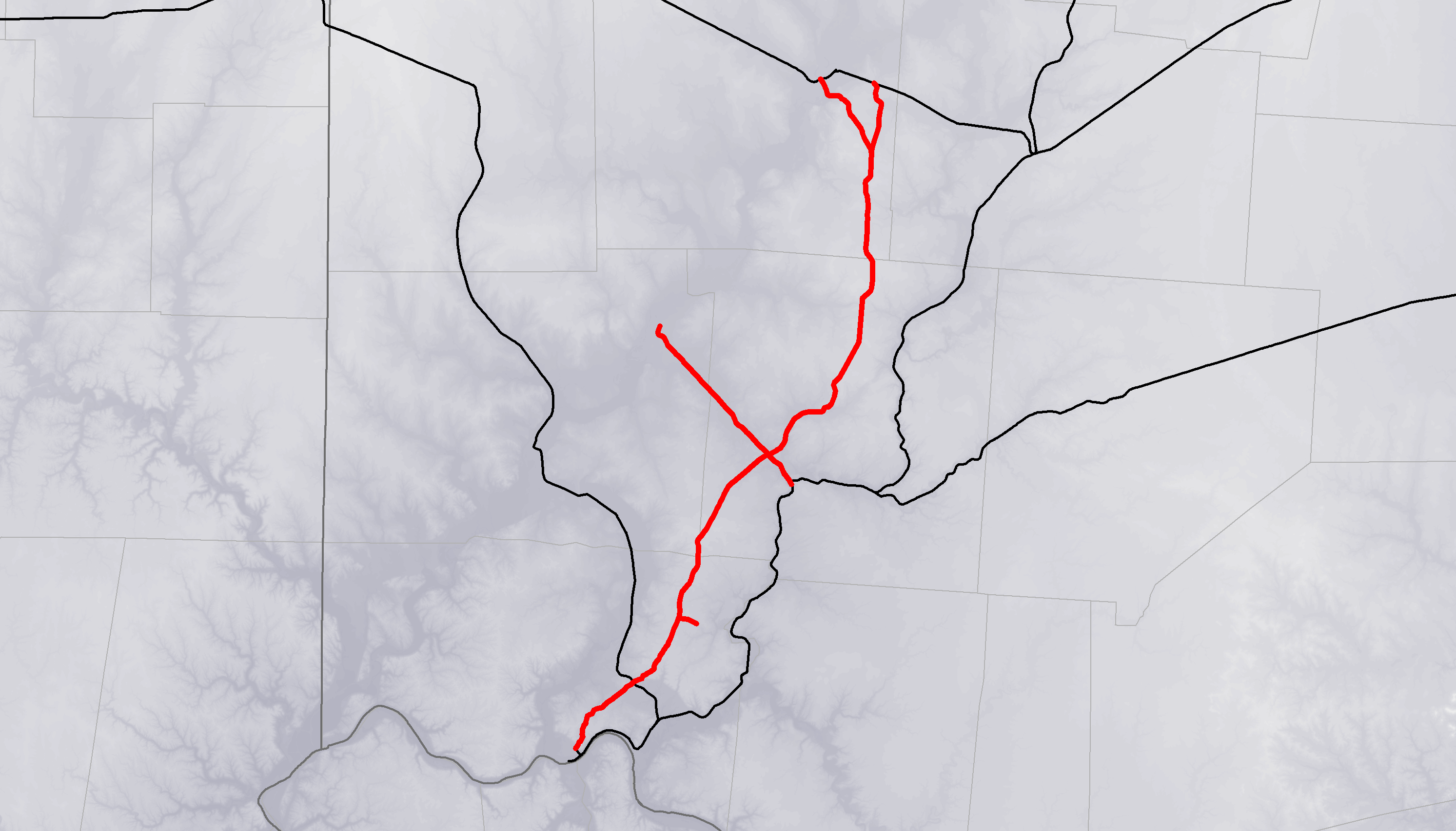 This is a map of the Cincinnati, Lebanon and Northern Railway as of 1918, with other Pennsylvania Railroad lines in black. Email me if you would like a copy of the GIS data I created (modified from Bureau of Transportation Statistics North American Transportation Atlas Data) or if you see any errors.